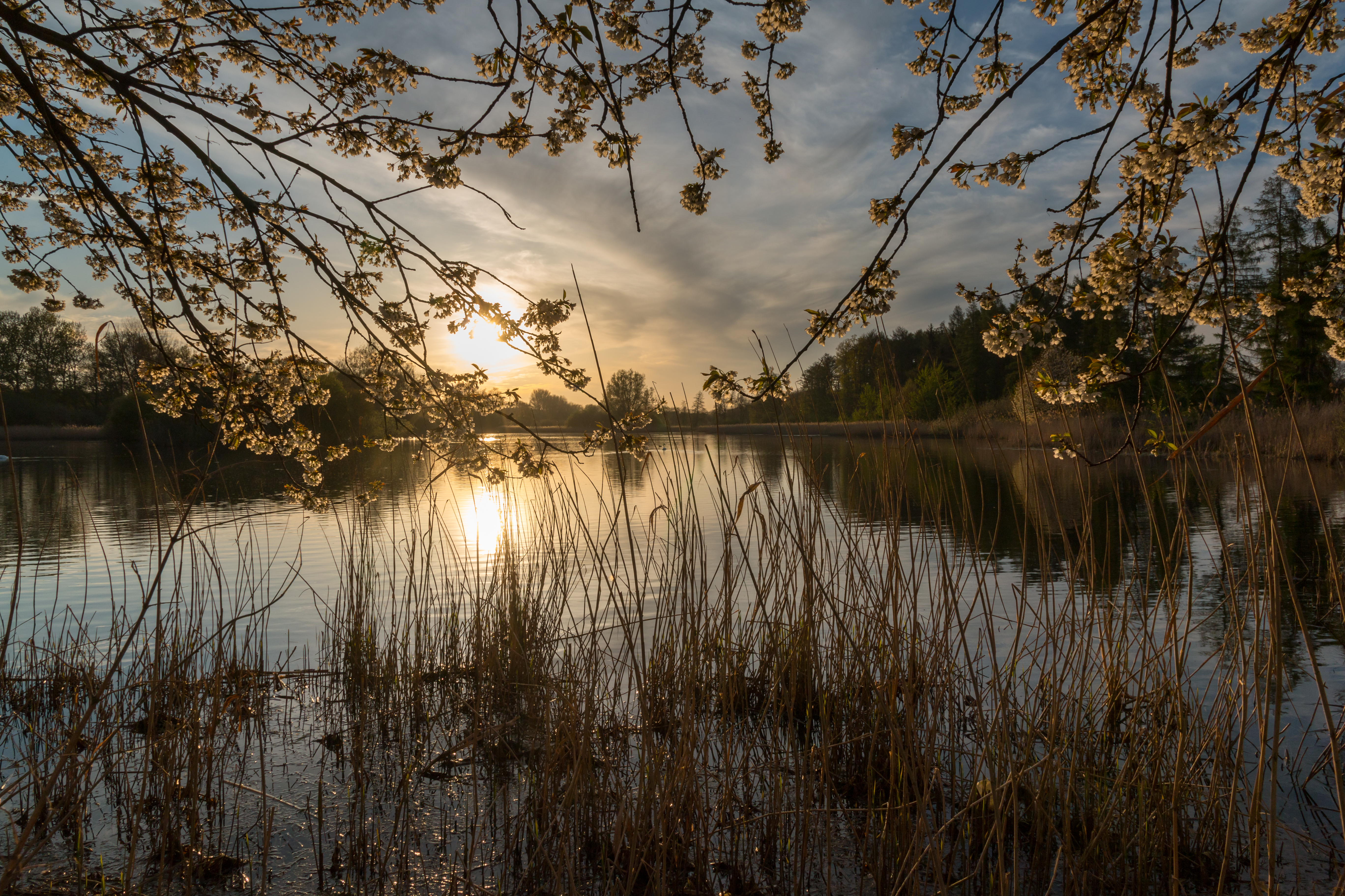 Oedlerteich at sunset, Kirchspiel, Dülmen, North Rhine-Westphalia, Germany